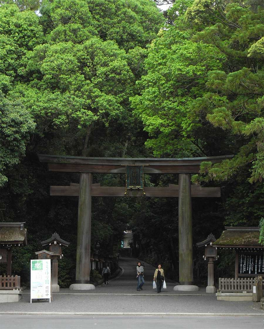 Ohmiwa Shrine, Second Tori